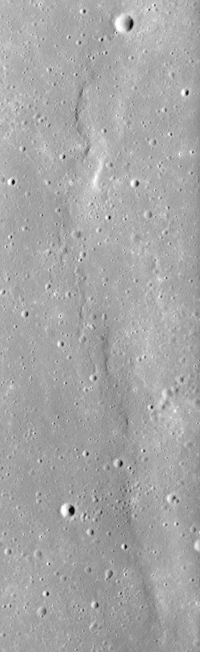 Slightly oblique view of most of Dorsum Von Cotta, on the moon. Taken by Apollo 15 panoramic camera.